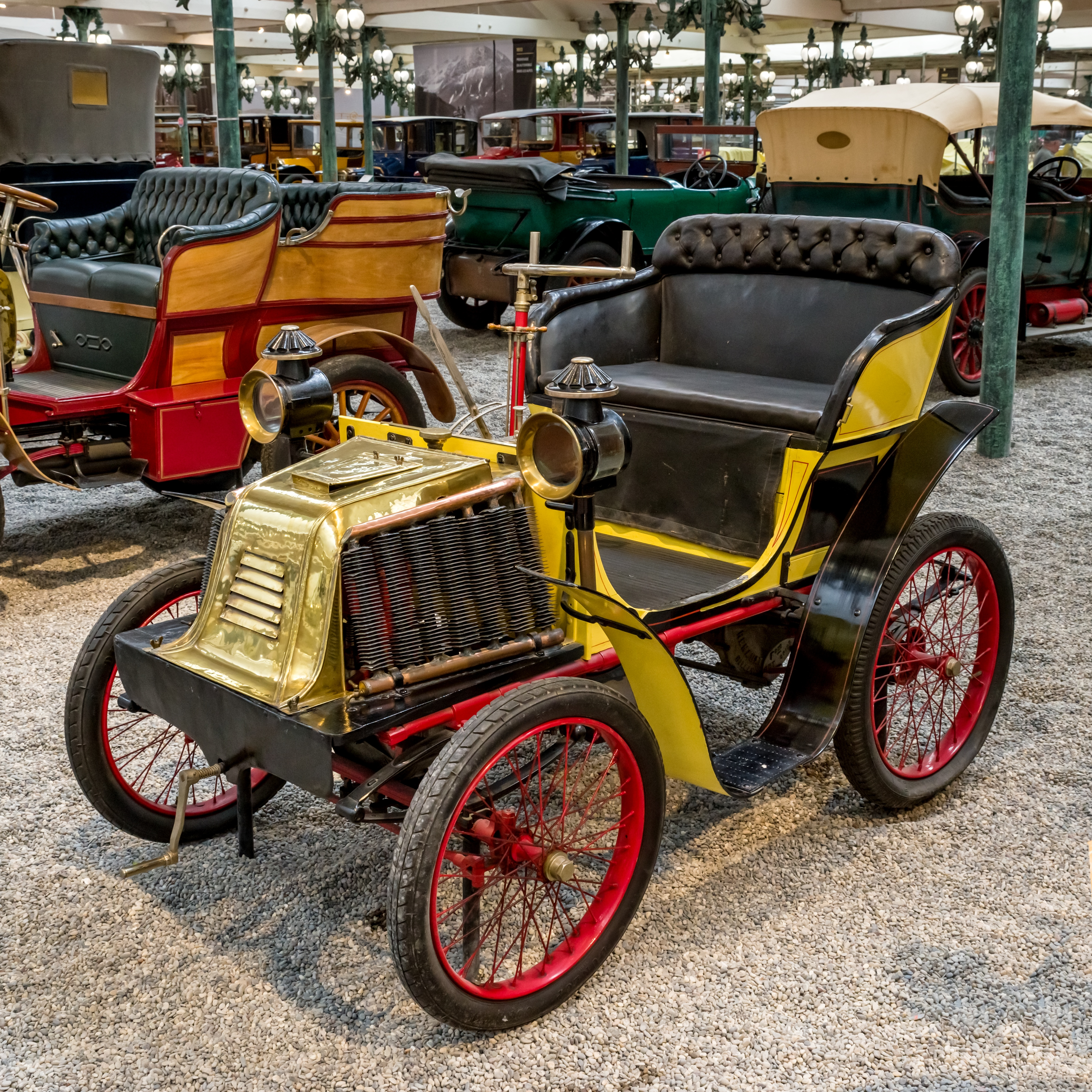 pictures from the Cité de l’Automobile – Musée National – Collection Schlump in Mulhouse, France ptictures from the 10. may 2018